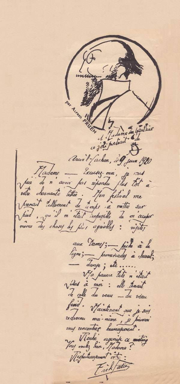 Letter from Erik Satie to Éva Gauthier